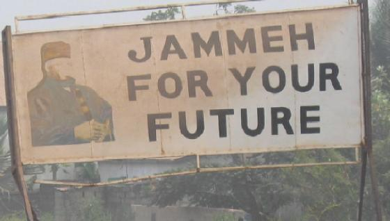 Serrekunda, street scenes